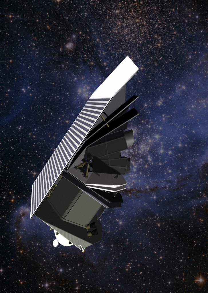 The Sentinel Space Telescope, being built by the B612 Foundation.